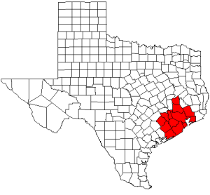 Map of Texas highlighting counties served by the Houston-Galveston Area Council; created by User:Acntx.